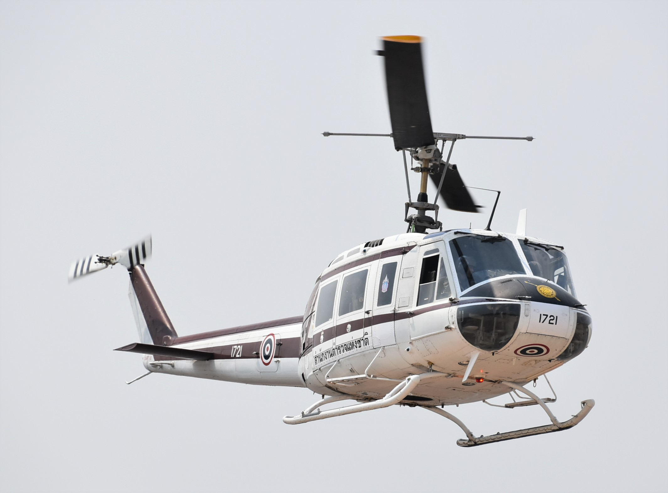 Bell Helicopters 205-A1 of the Royal Thai Police hover taxiing at Khon Kaen-KKC,Thailand, 23/04/17.